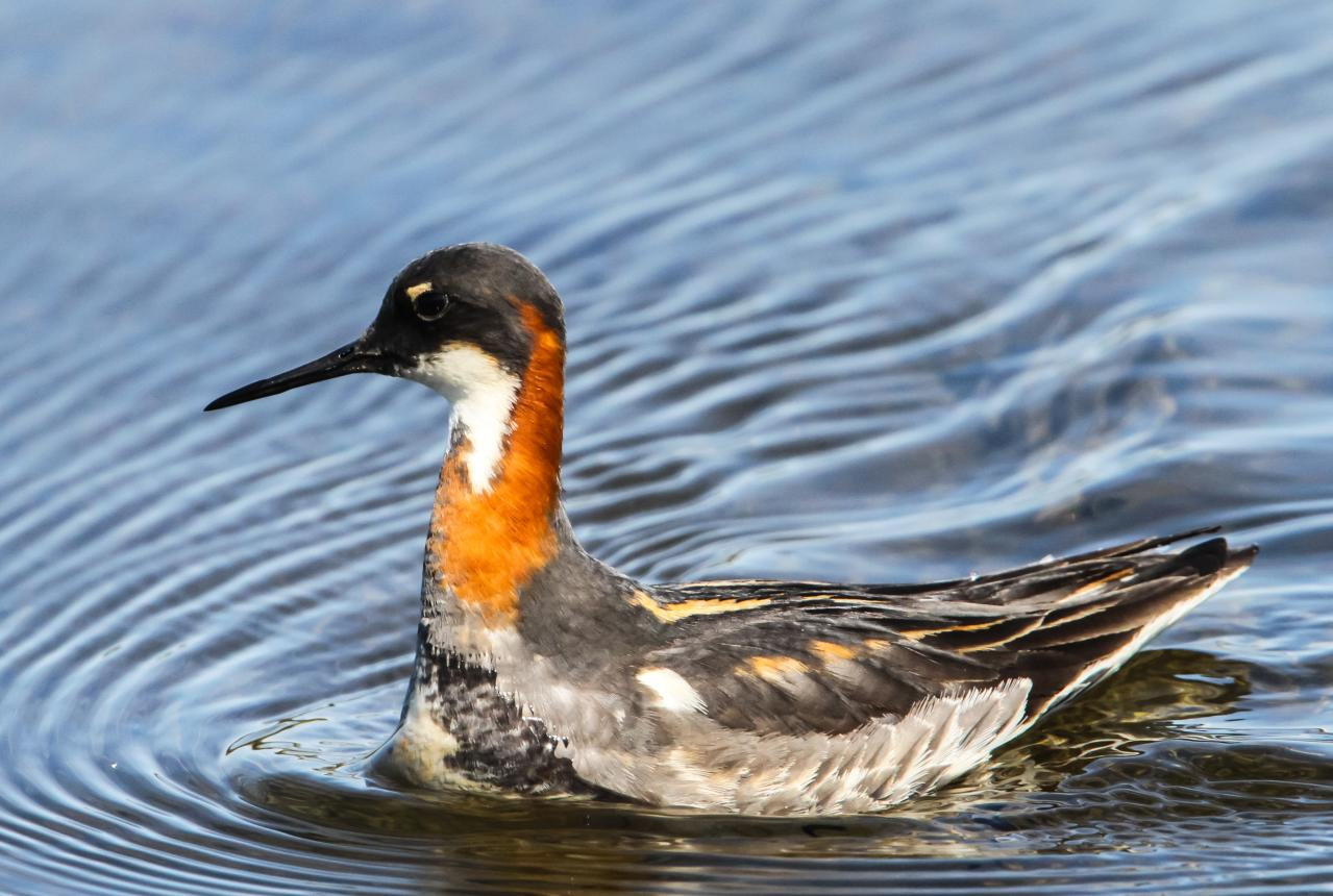 A Red-necked Phalarope in Iceland.